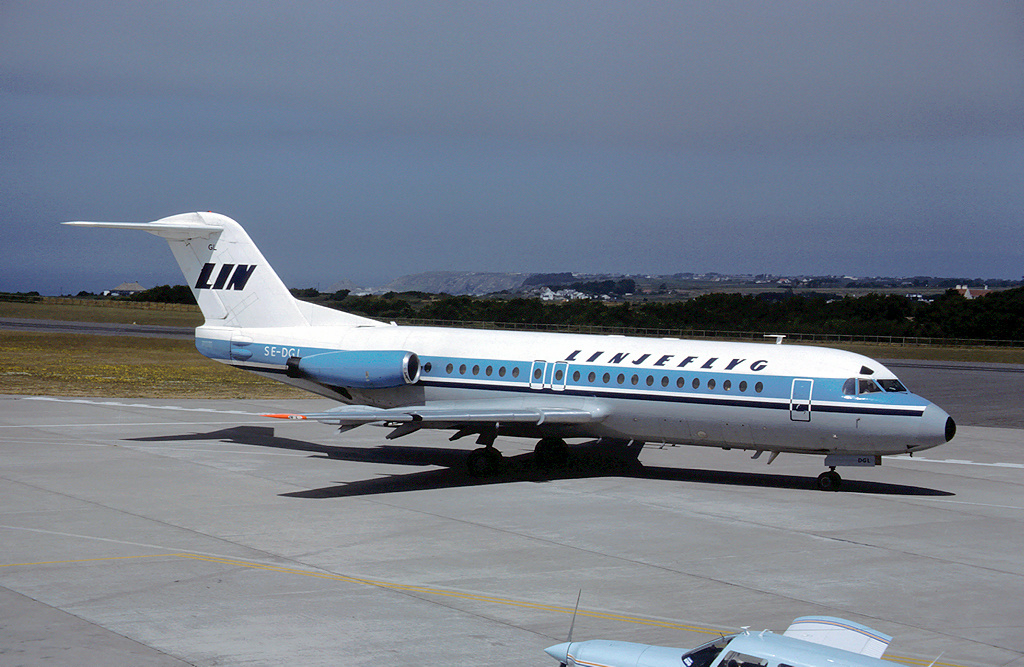 A Linjeflyg Fokker F-28-4000 Fellowship at Jersey Airport